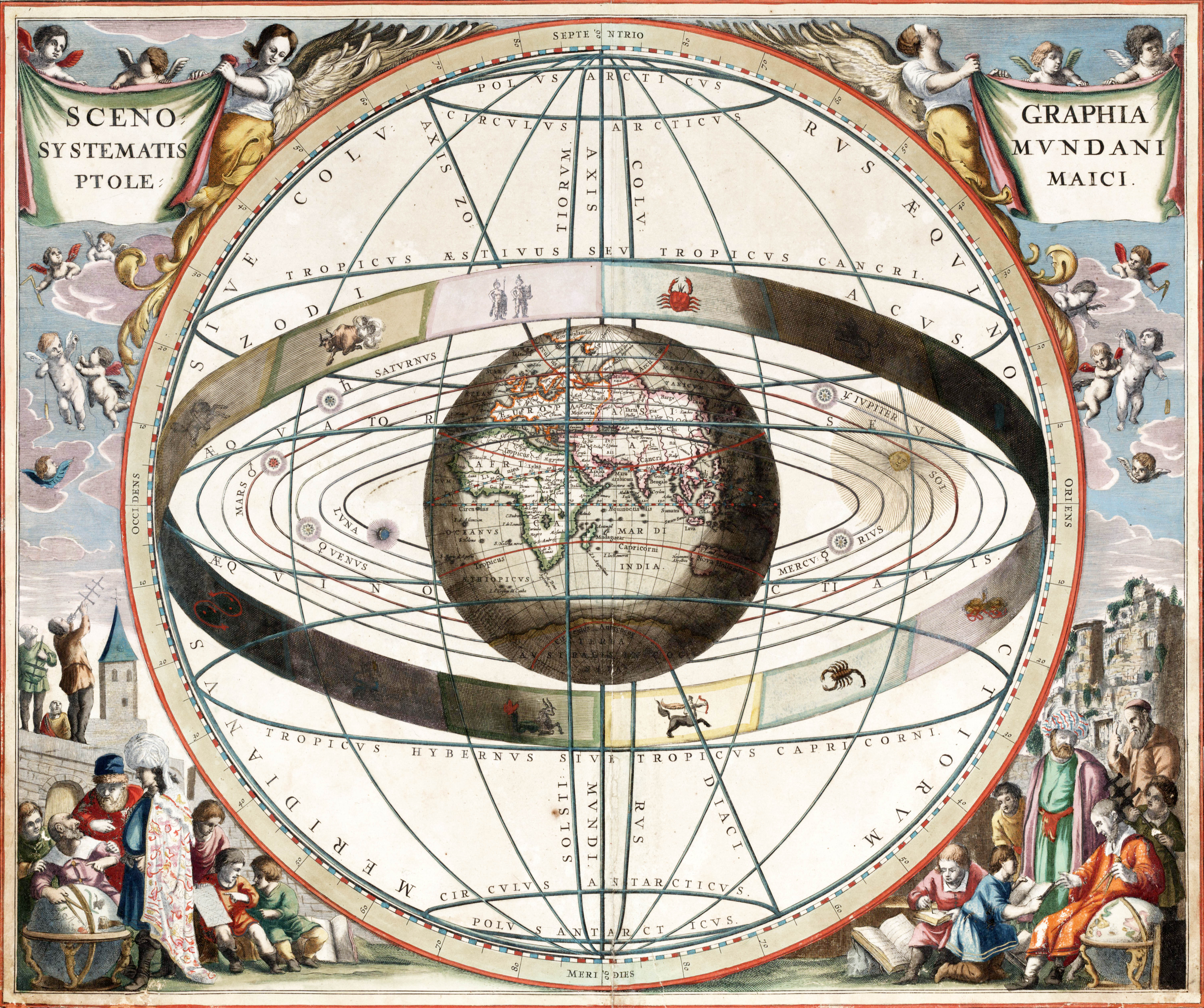 From Andreas Cellarius Harmonia Macrocosmica, 1660/61. Chart showing signs of the zodiac and the solar system with world at centre. Plate 2: SCENOGRAPHIA SYSTEMATIS MVNDANI PTOLEMAICI - Scenography of the Ptolemaic cosmography. Title: Scenographia systematis mvndani Ptolemaici [cartographic material]. Publisher: [Amsterdam : s.n., 1660] Physical Description: 1 map : col. ; 38 cm. in diam. Notes: "444" in top right hand margin in pencil. Rex Nan Kivell Collection Map NK 10241. Call Number: MAP NK 10241 Amicus Number: 9995246